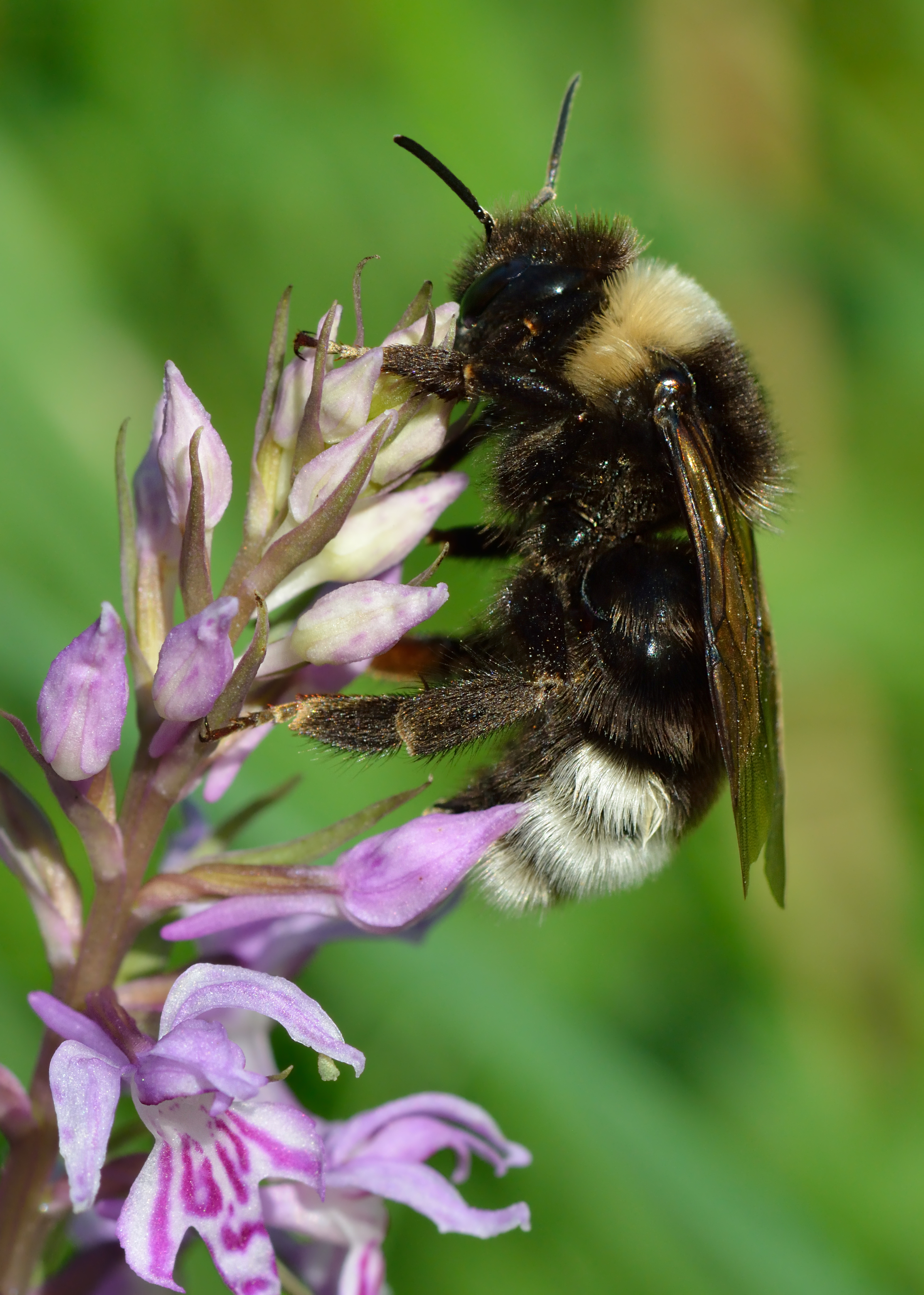 Female gypsy's cuckoo bumblebee (Bombus bohemicus) on the common spotted orchid (Dactylorhiza fuchsii). Keila, Northwestern Estonia.